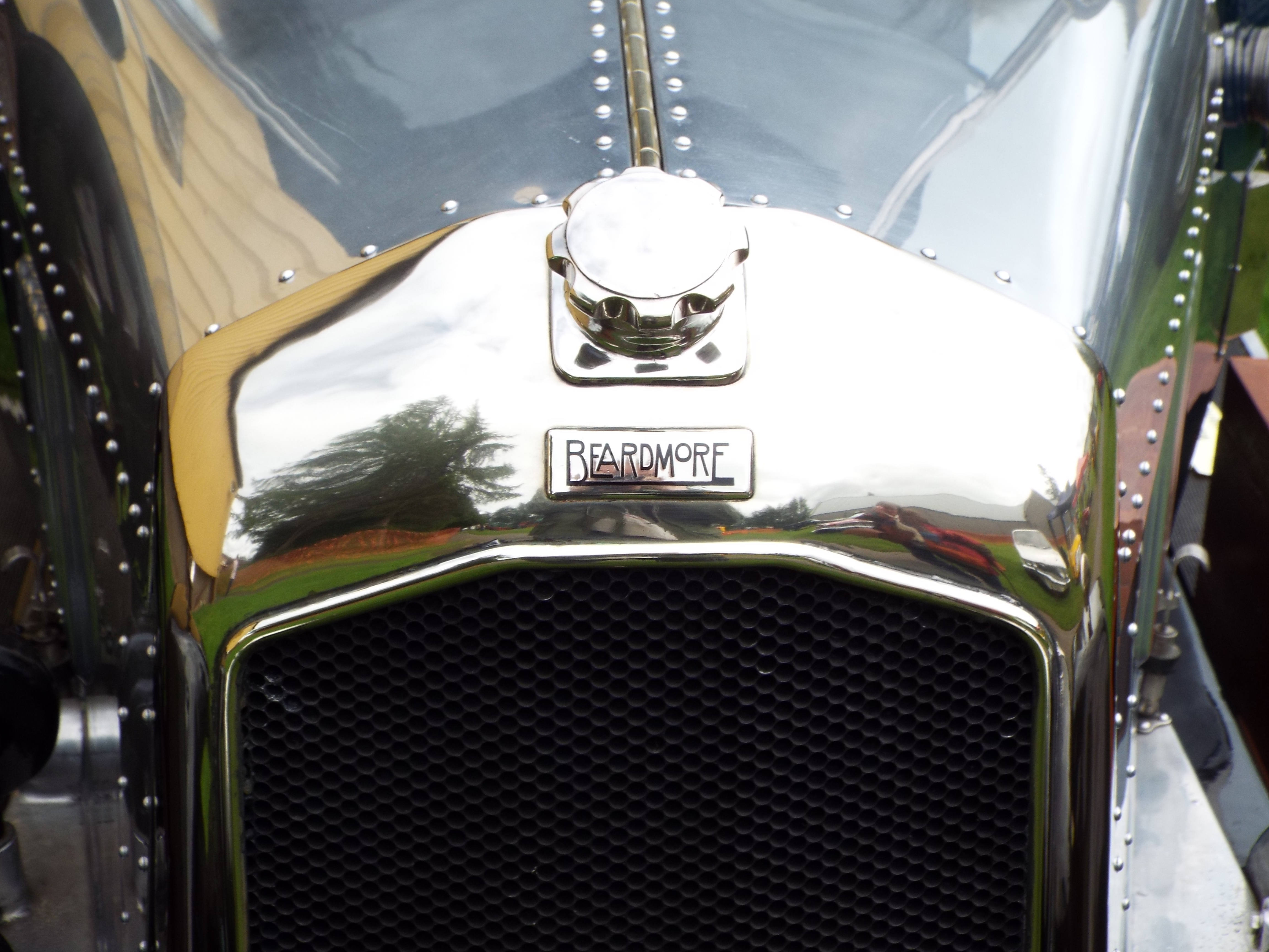 Beardmore Grampian Transport Museum